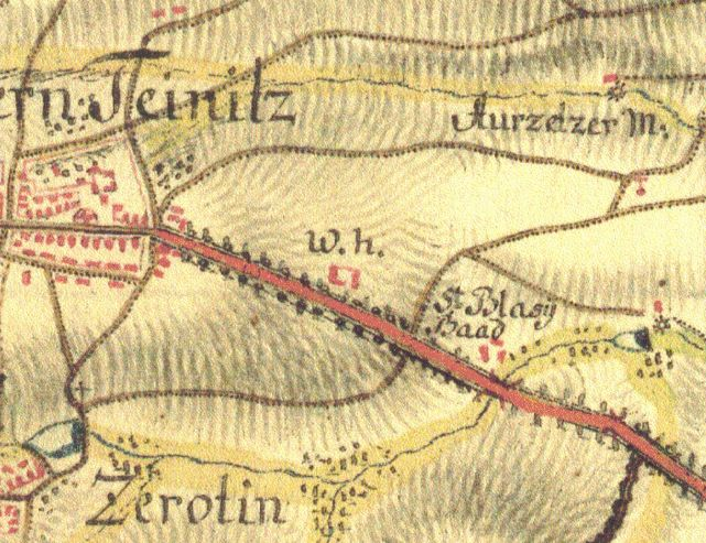 Former mill in Pacov by Panenský Týnec on the map from the about 1765